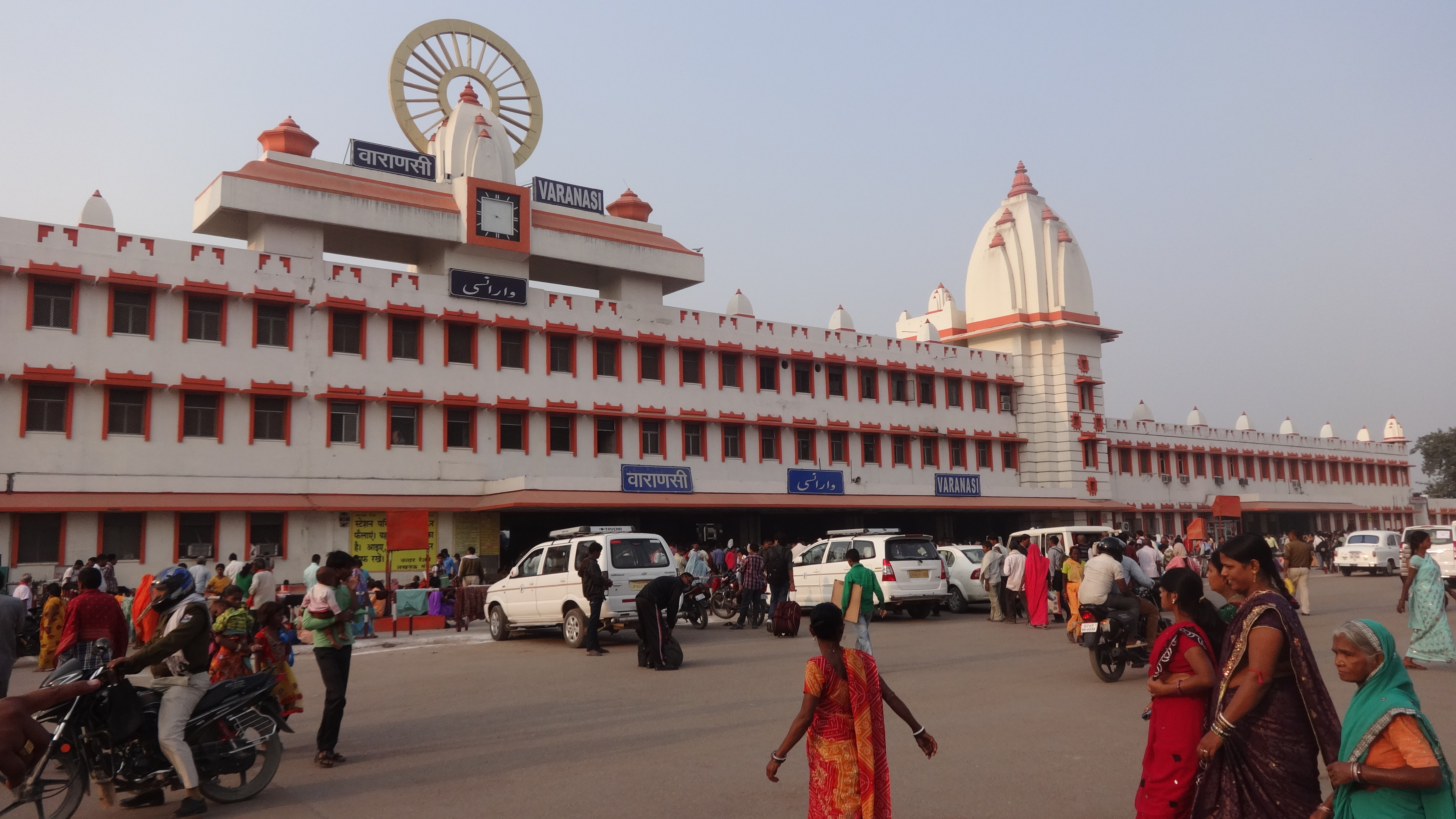 places of varanasi